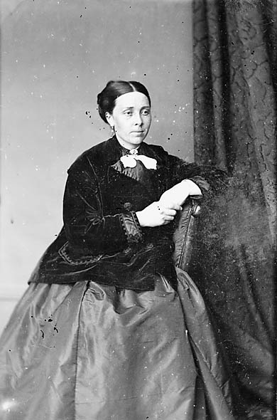 1 negative : glass, wet collodion, b&w ; 11 x 16.5 cm.